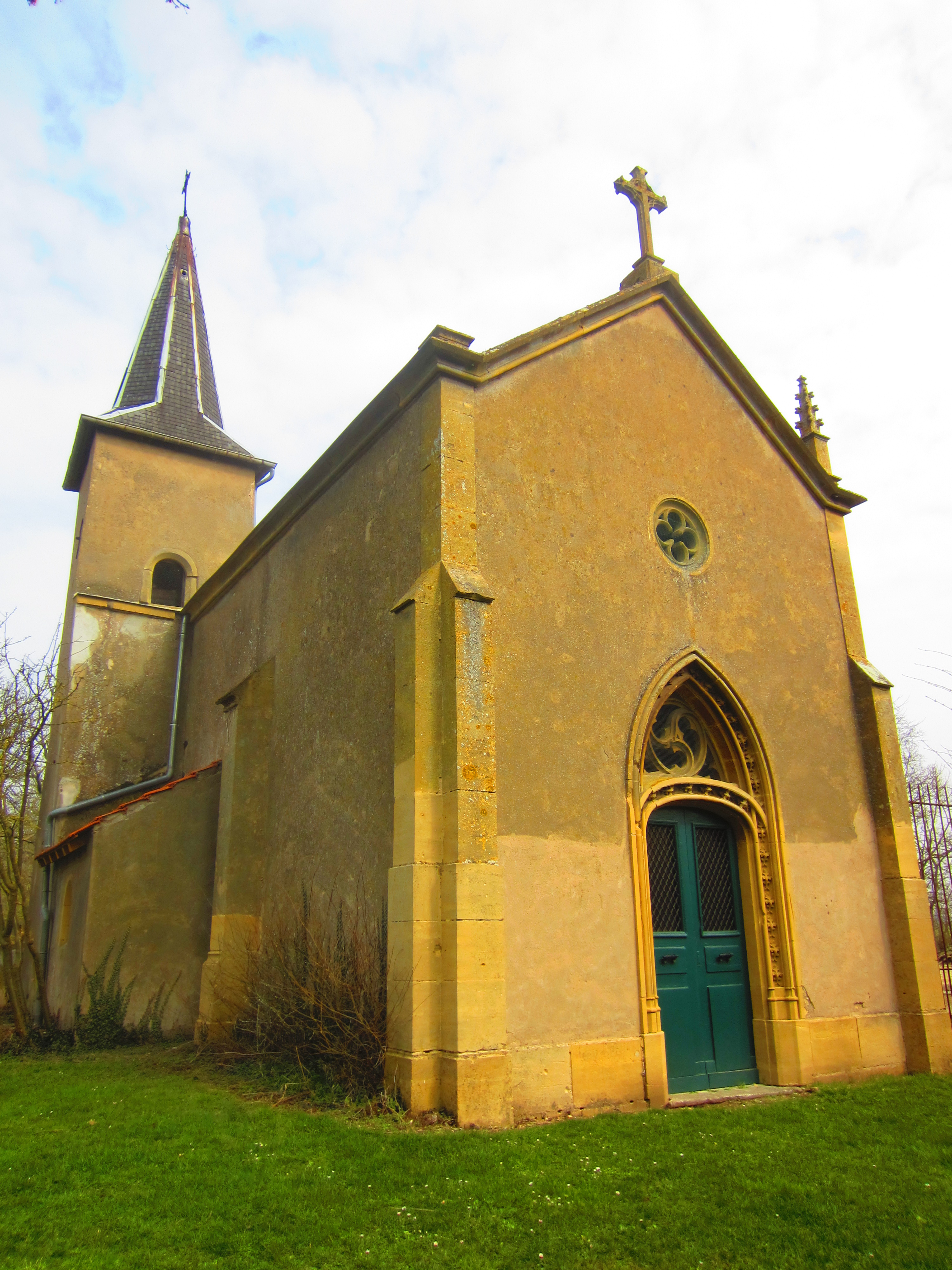 Logne chapel